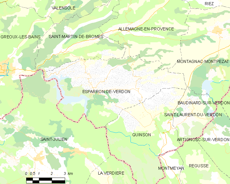 Map commune FR insee code 04081.png Légende